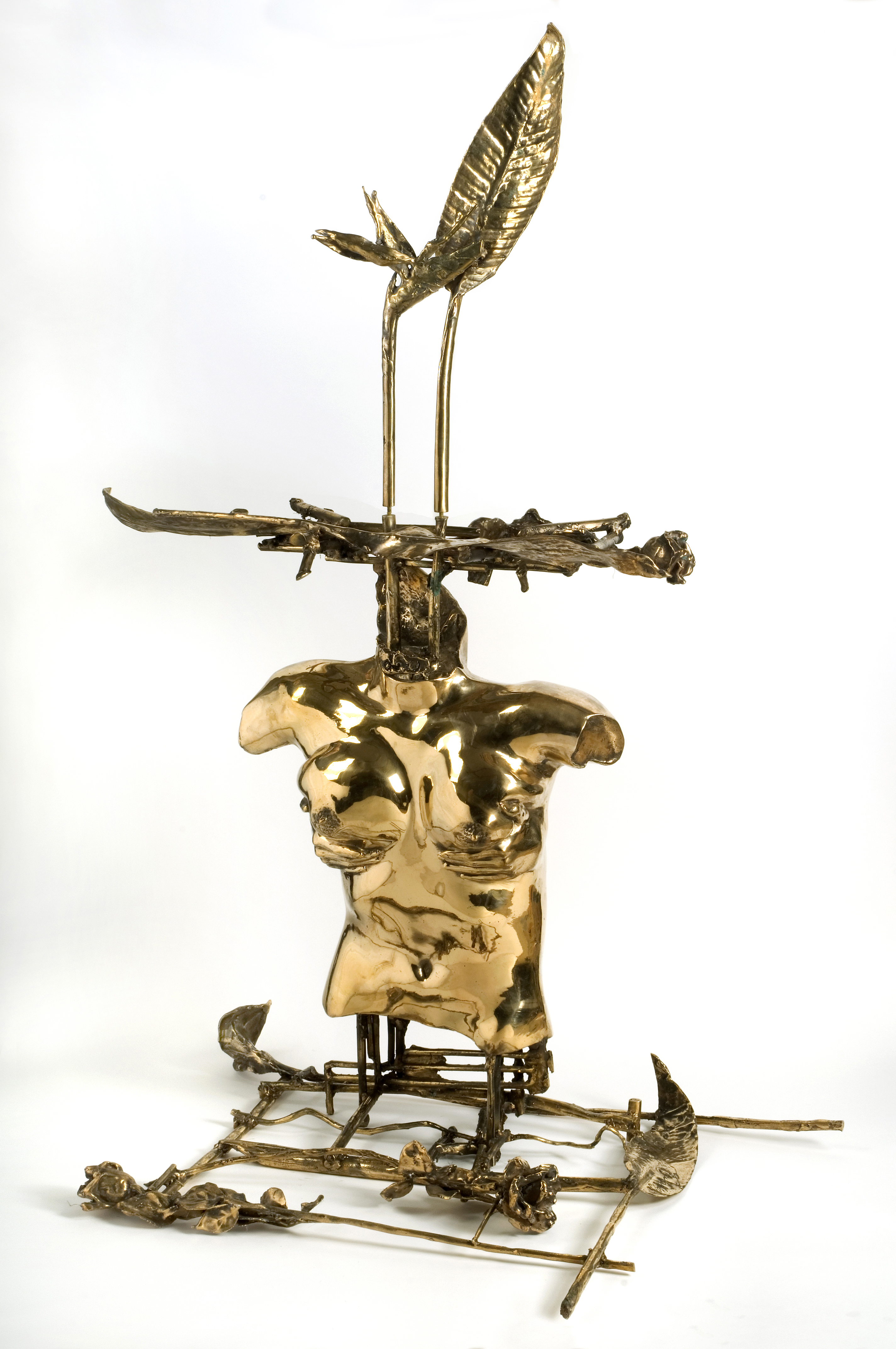 Adam and Eve 2005